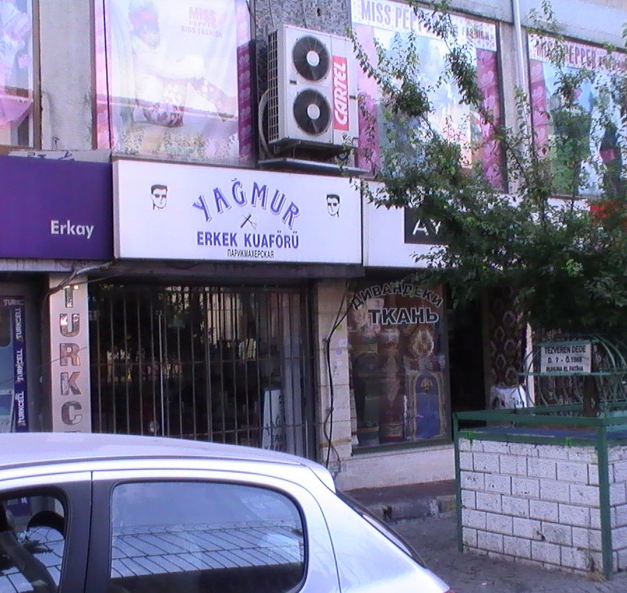 Istanbul, Fatih, Laleli. A shop window with Russian text.